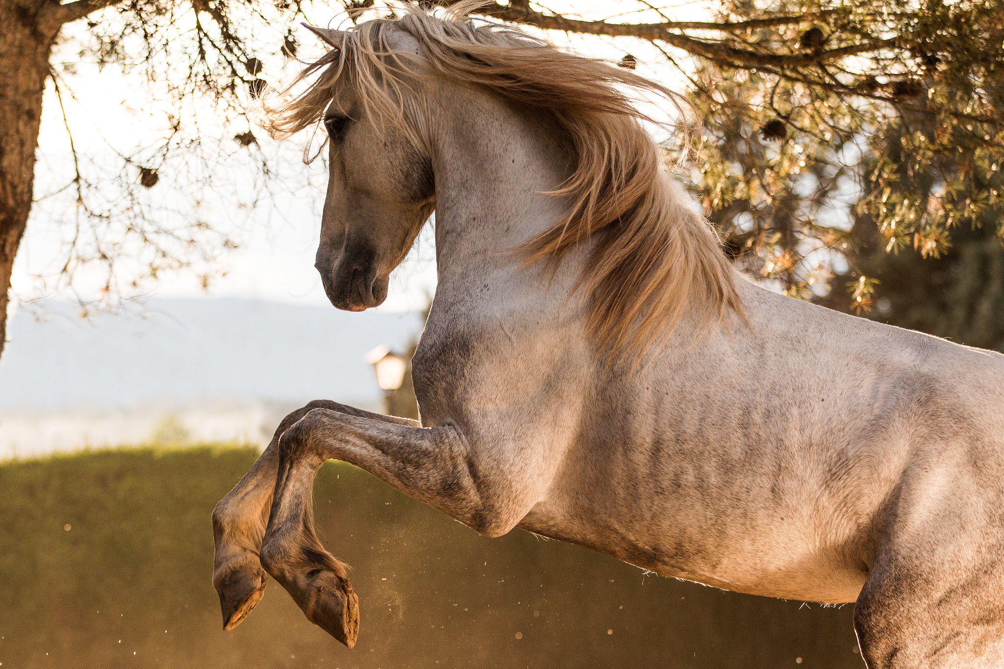 500px provided description: Img2527 Pre4 [#beauty ,#sunset ,#motion ,#beautiful ,#black and white ,#horse ,#stallion ,#spain ,#grey ,#horses ,#mane ,#white horse ,#rearing ,#PRE ,#purarazaespaniola ,#susannes blickwinkel]